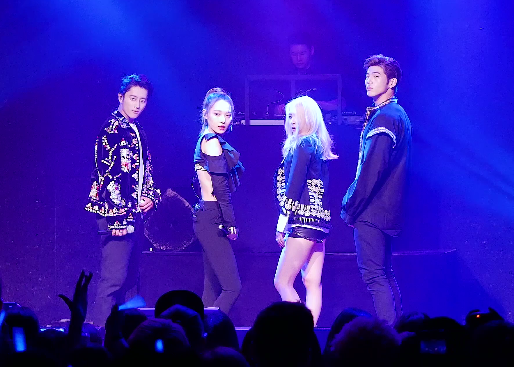 170425 WILD KARD PARTY - K.A.R.D 'RUMOR' FANCAM by DaftTaengk